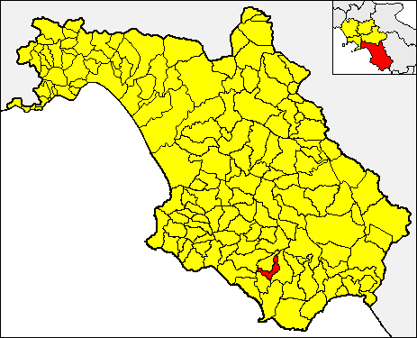 Locator map of the municipality of Futani (red) within the Province of Salerno